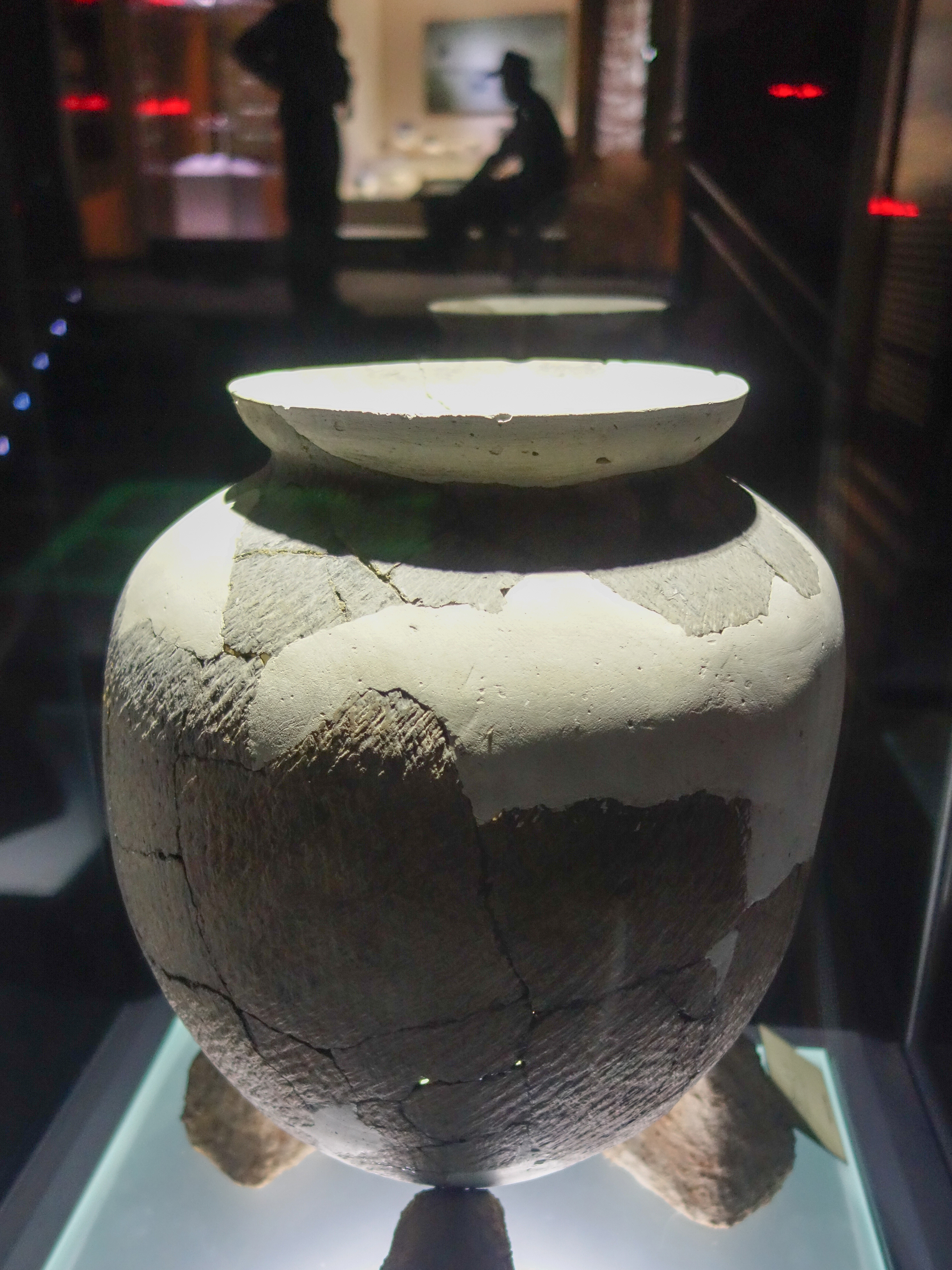 Kuahukiao site.